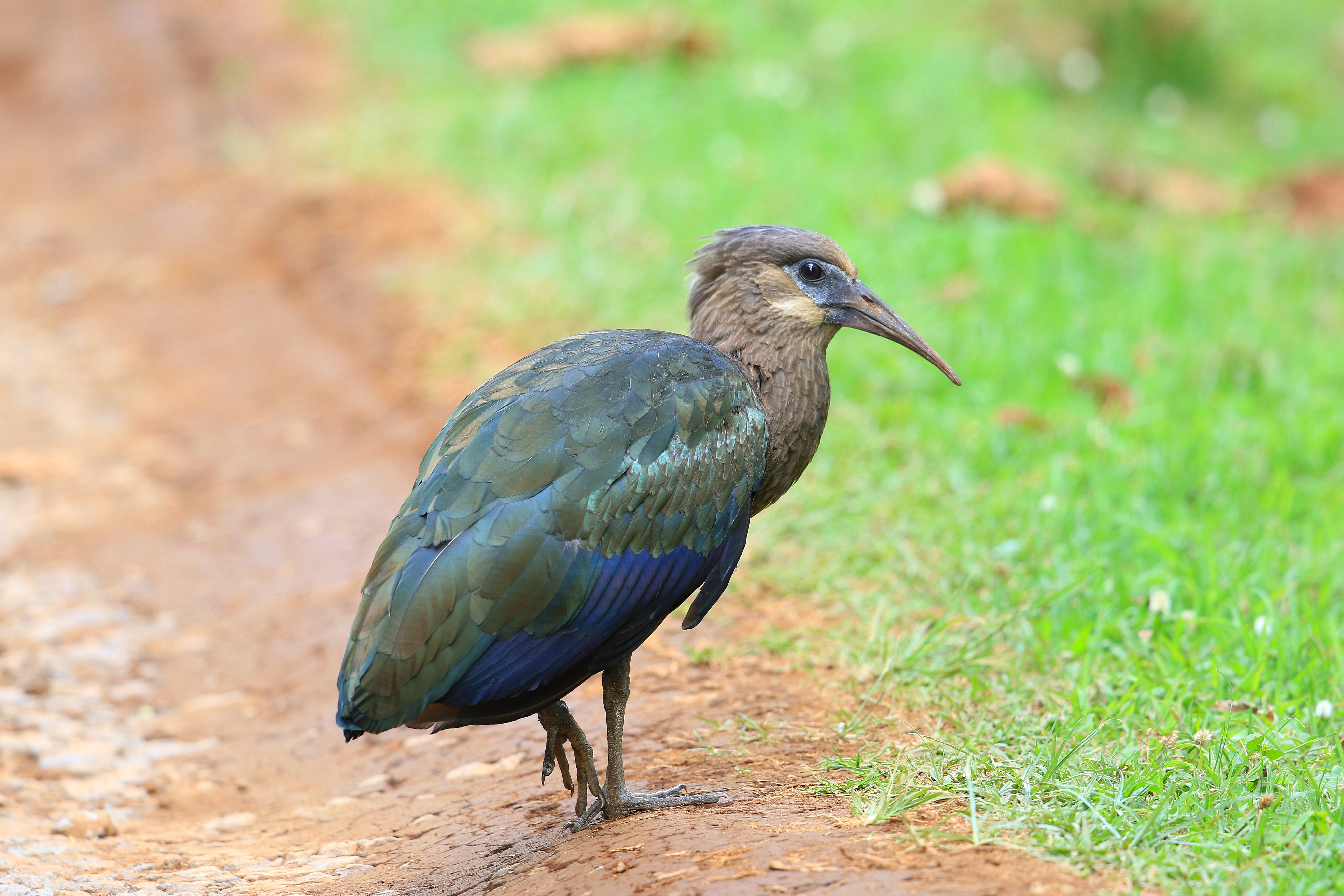 This image of immature Olive Ibis was taken at the base of Mount Kenya.